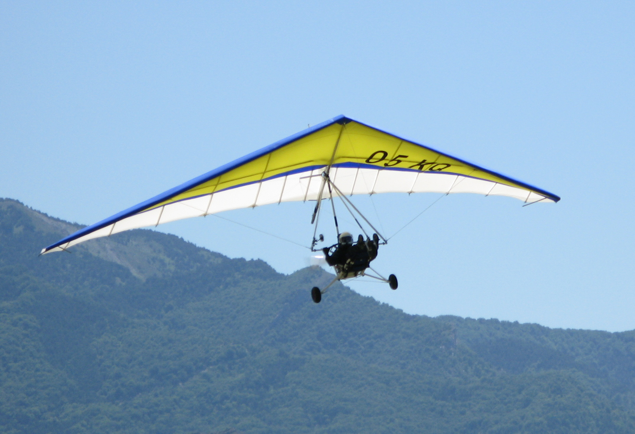 Electric Delta Trike Electro-Trike made by Electravia. First flight in June 2008. Owner : Electravia